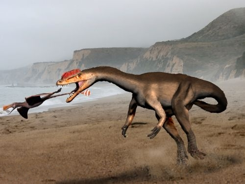 Liliensternus liliensterni restored with speculative crest, chasing down a Pterosaur.